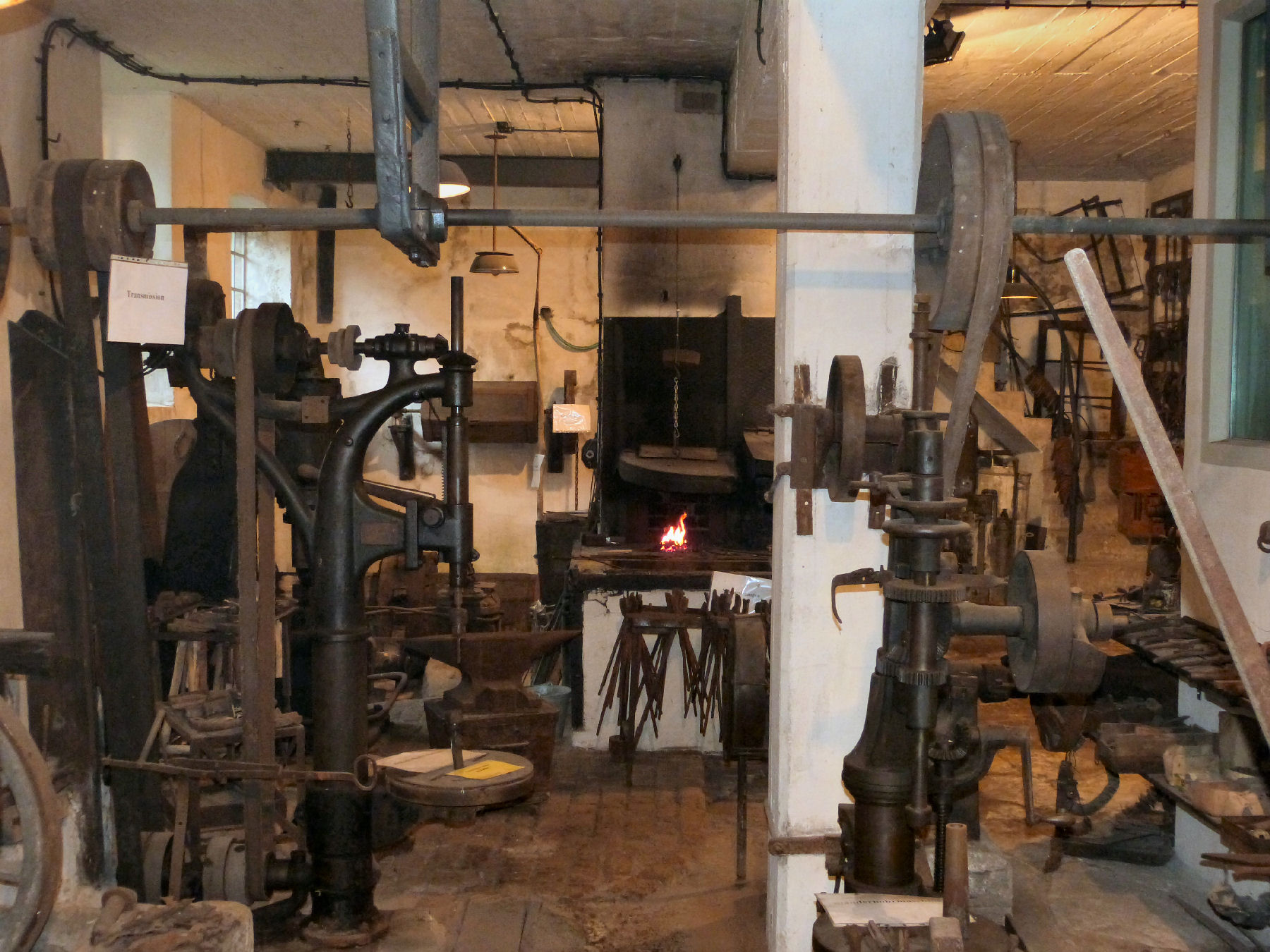 Inside view of hammer smiths Gnuse in Vlotho, district of village Val. In the upper picture part the transmission is to be seen. With her the strength generated by the mill wheel on the used tools and machines will transfer